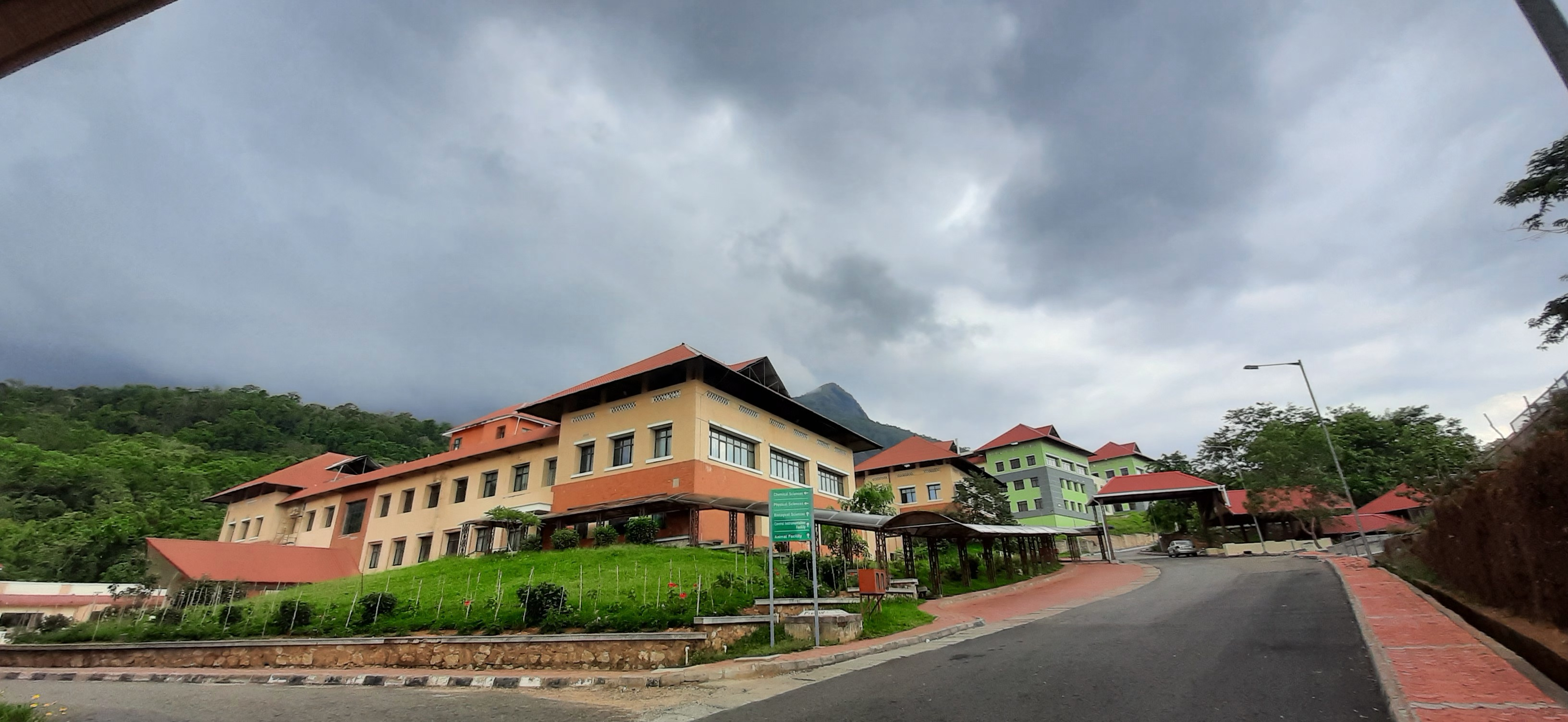 Chemical Science Block and Biology Builiding at IISER TVM.